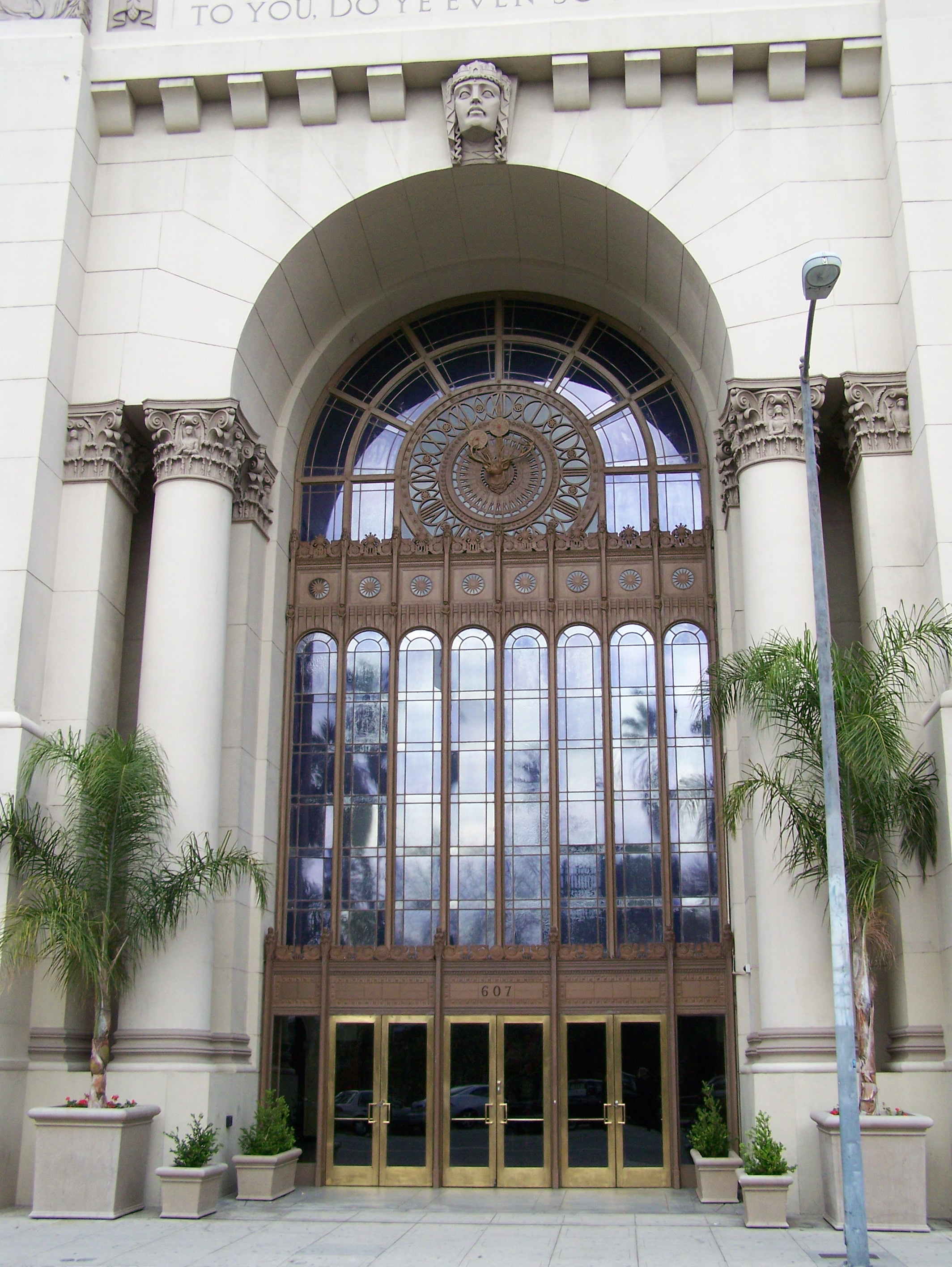 Entrance of the Park Plaza Hotel, Los Angeles. courtesy (c) 2008 by Molly Berke.